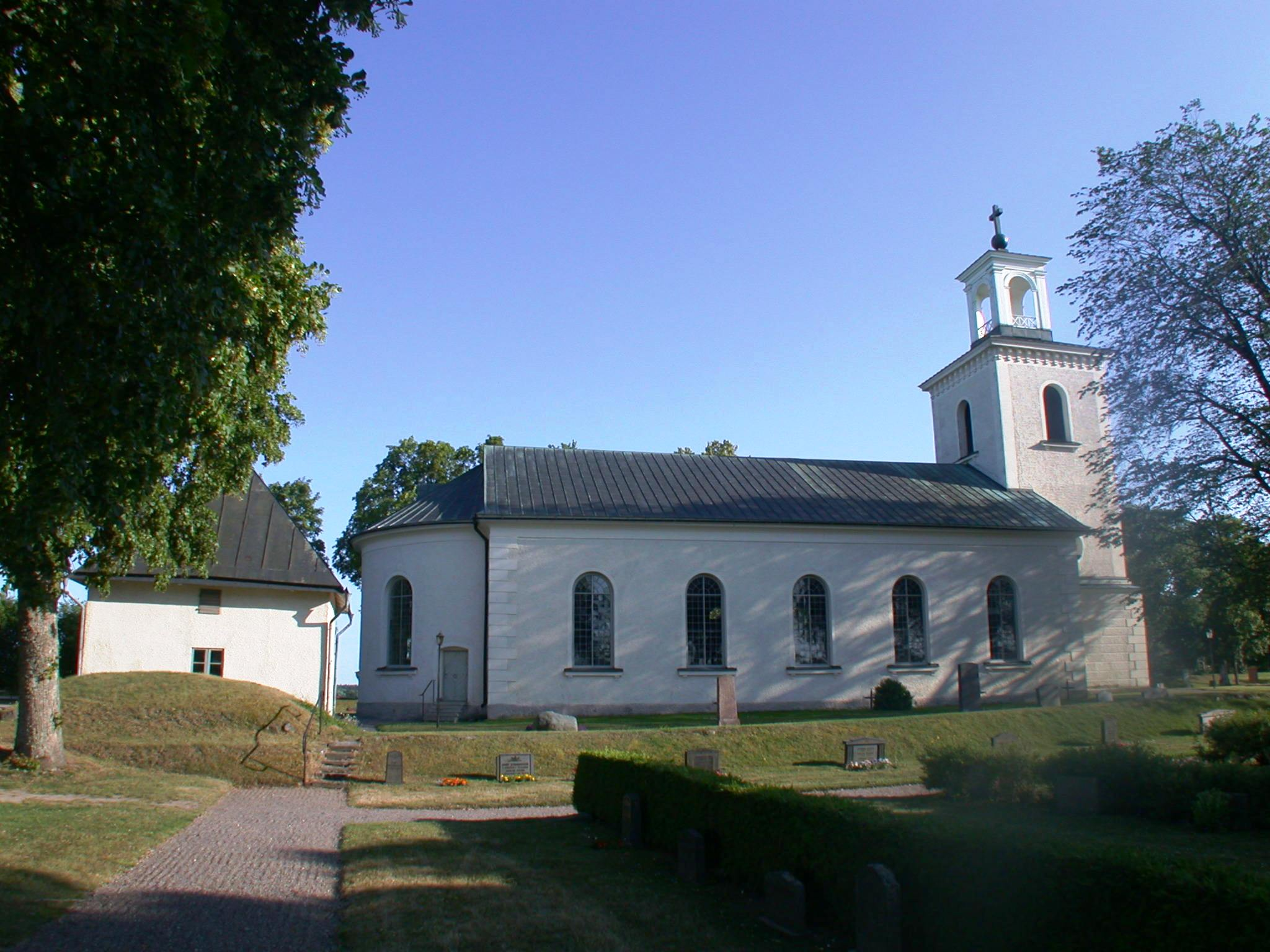 Vallerstad church, Mjölby, Sweden. Photo by Riggwelter July 12, 2006.